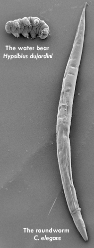 The water bear Hypsibius dujardini and the nematode C. elegans, scanning electron micrograph by Bob Goldstein and Victoria Madden.